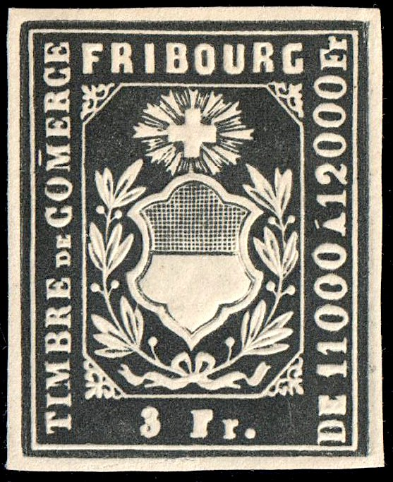 Switzerland Fribourg 1862-1867 revenue. Special issue, imperforate (A).